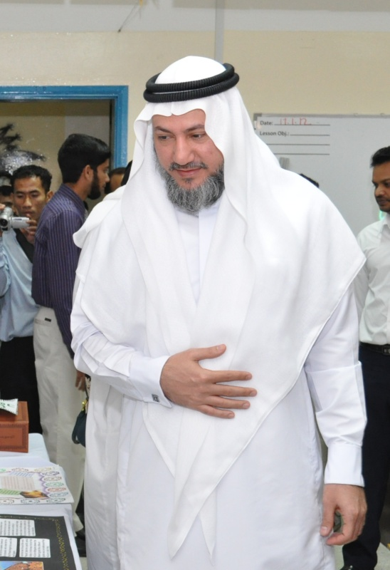 Dr Mohammed Alkobaisi at the inauguration of Islamic Civilization Festival in Islamic.